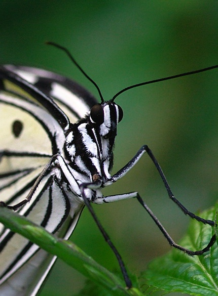 Part of the image blown up to 'show' the brush footed part - though it is very hard to see. IMG_2943.jpg